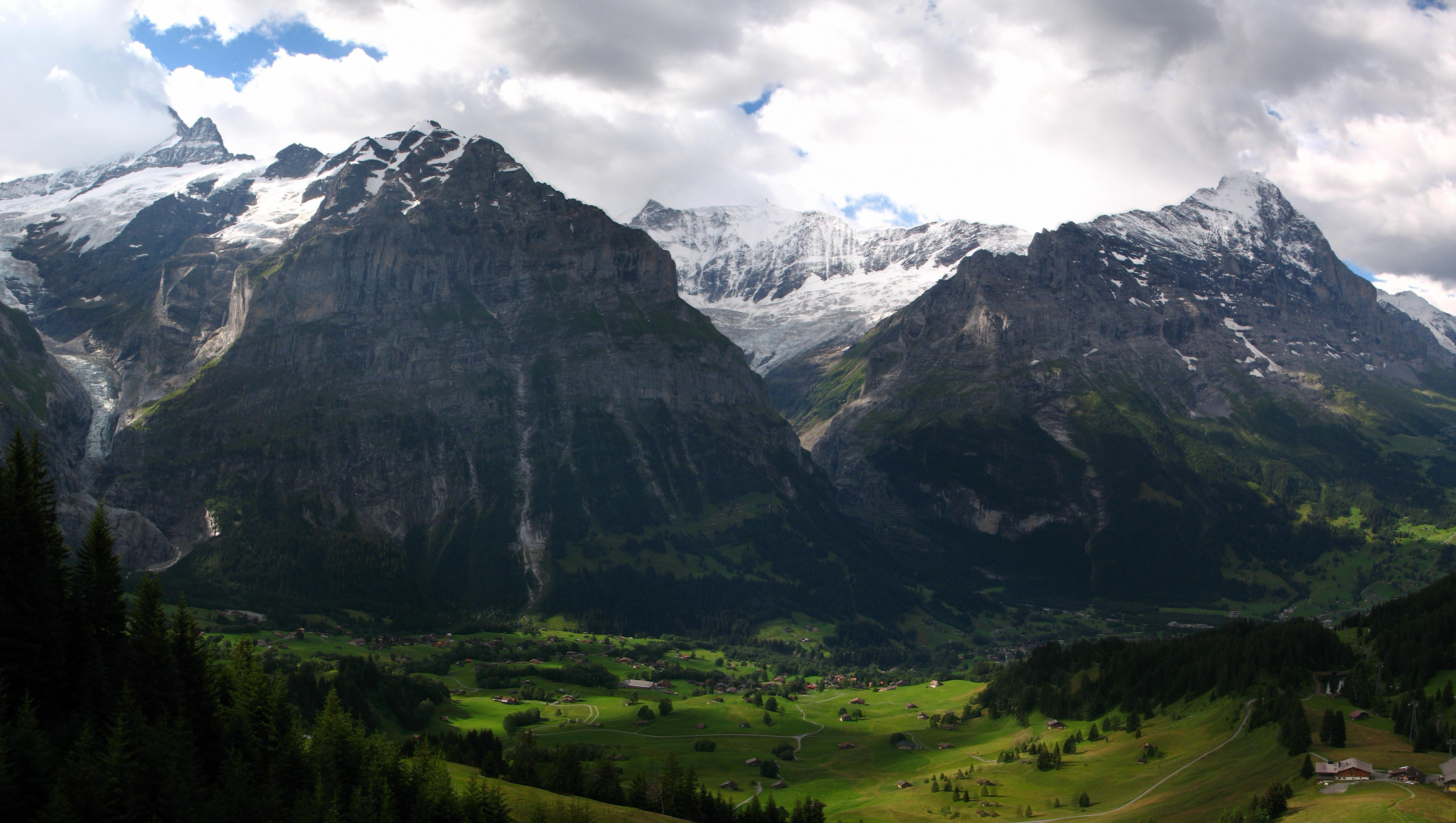 Schreckhorn, Mettenberg, and the Upper Grindelwald Glacier viewed from the First gondola lift, Grindelwald, Switzerland